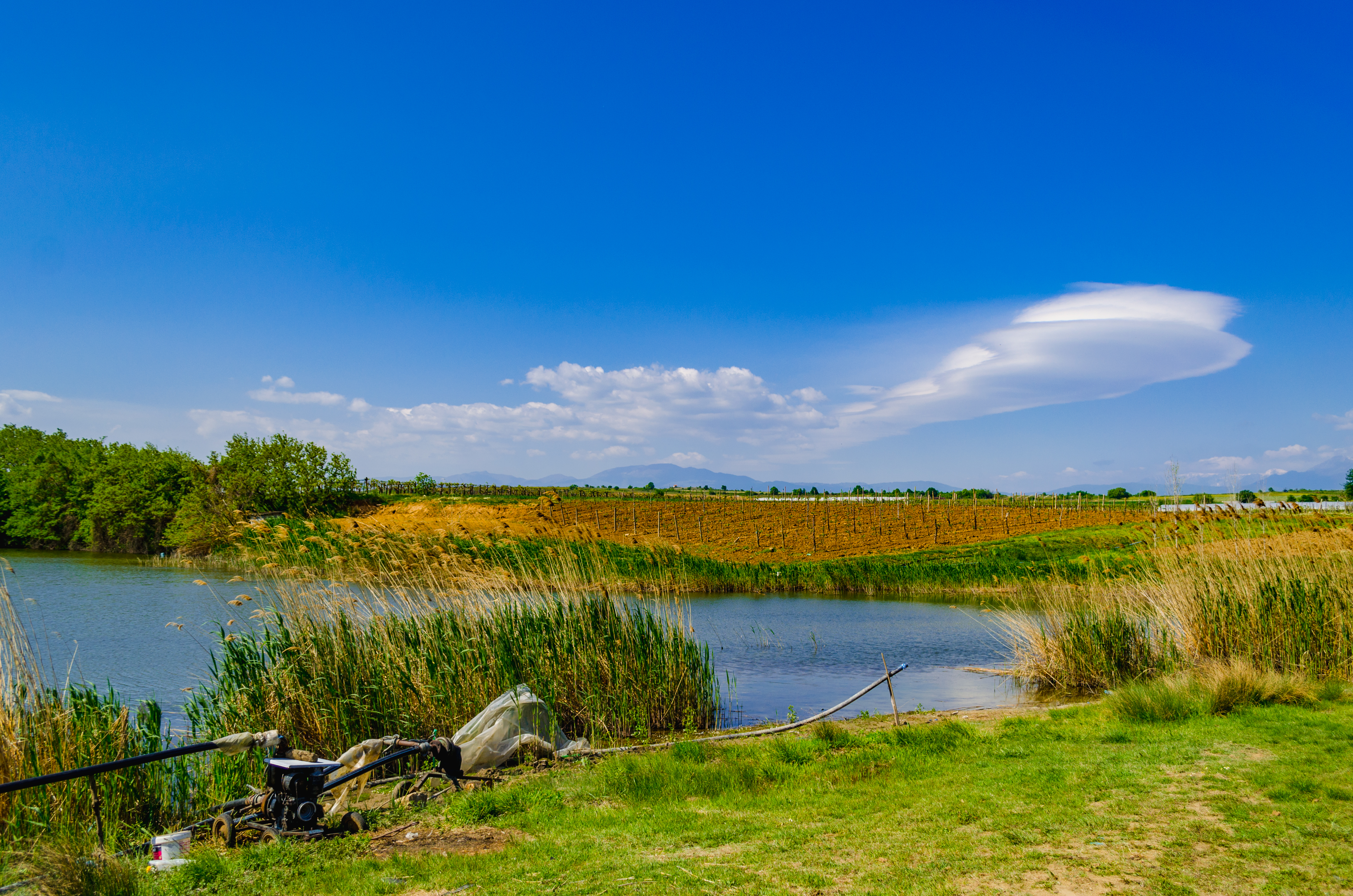 Selemli Lake near the eponymous village, Macedonia